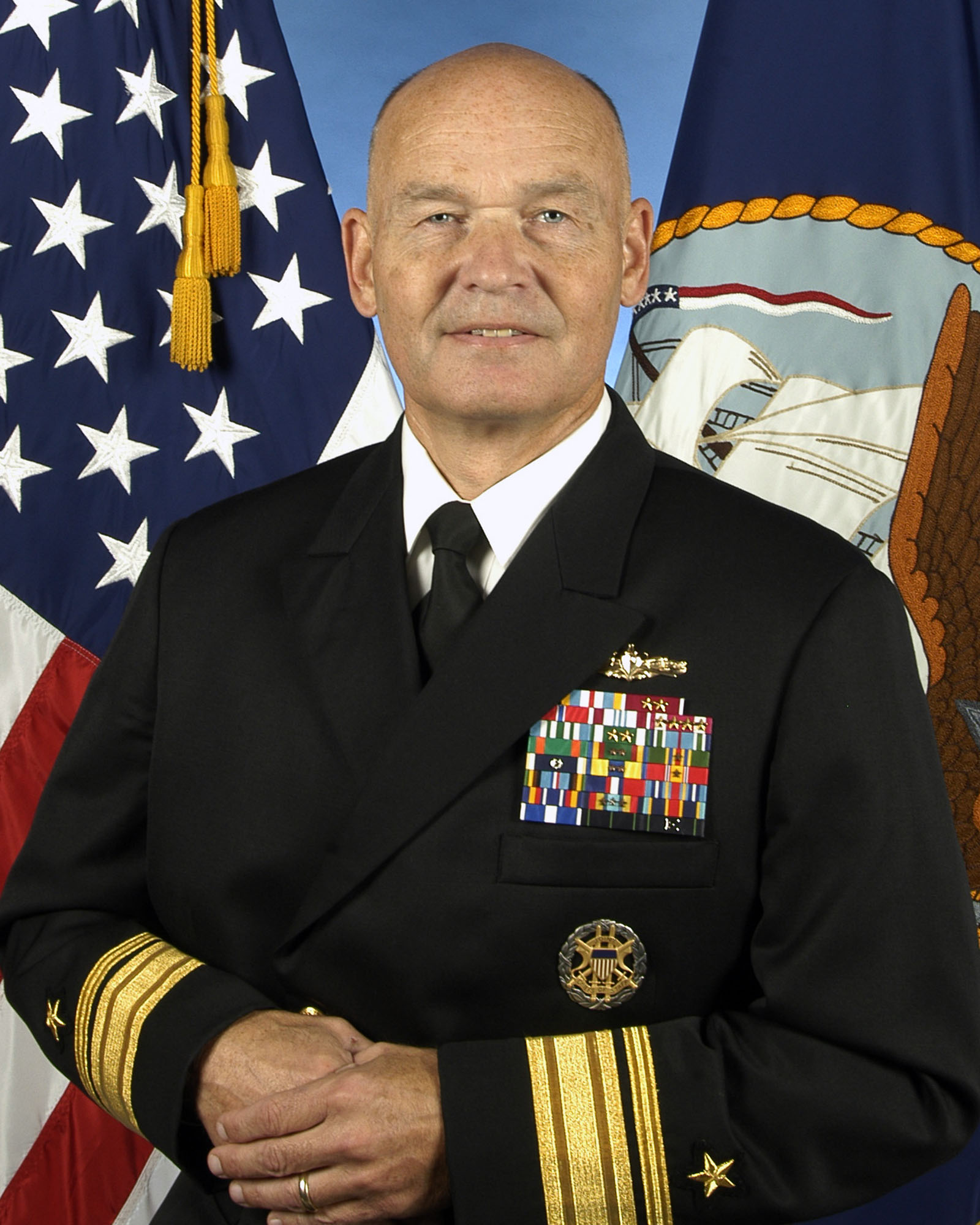 Rear Admiral Mark H. Buzby Commander, Military Sealift Command (MSC)